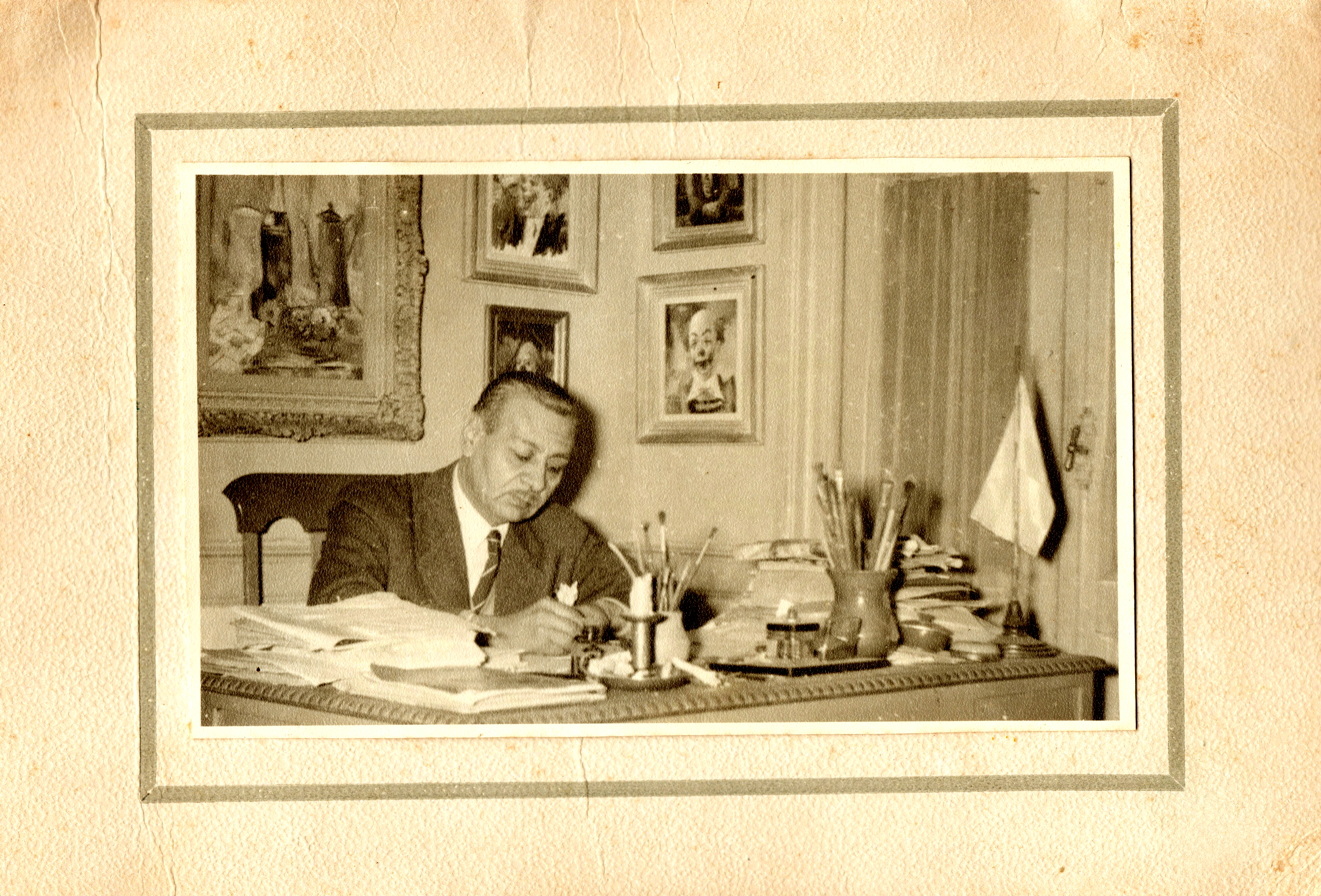 Argentine artist Gaspar Besares-Soraire in his study in Buenos Aires, circa late 1940s